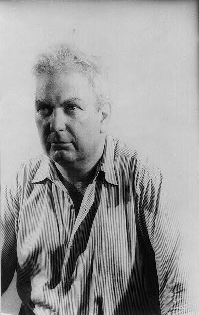 Portrait of Alexander Calder, 1947 July 10